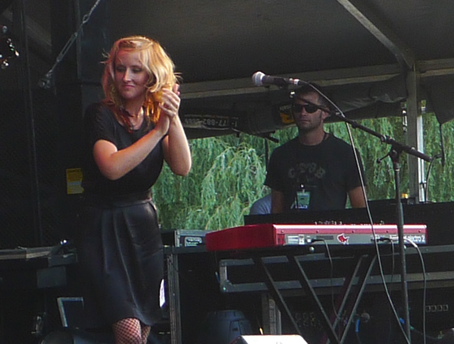 Jasmin Parkin from Mother Mother Mother Mother rock BC Day with the Arkelles and Sam Roberts!